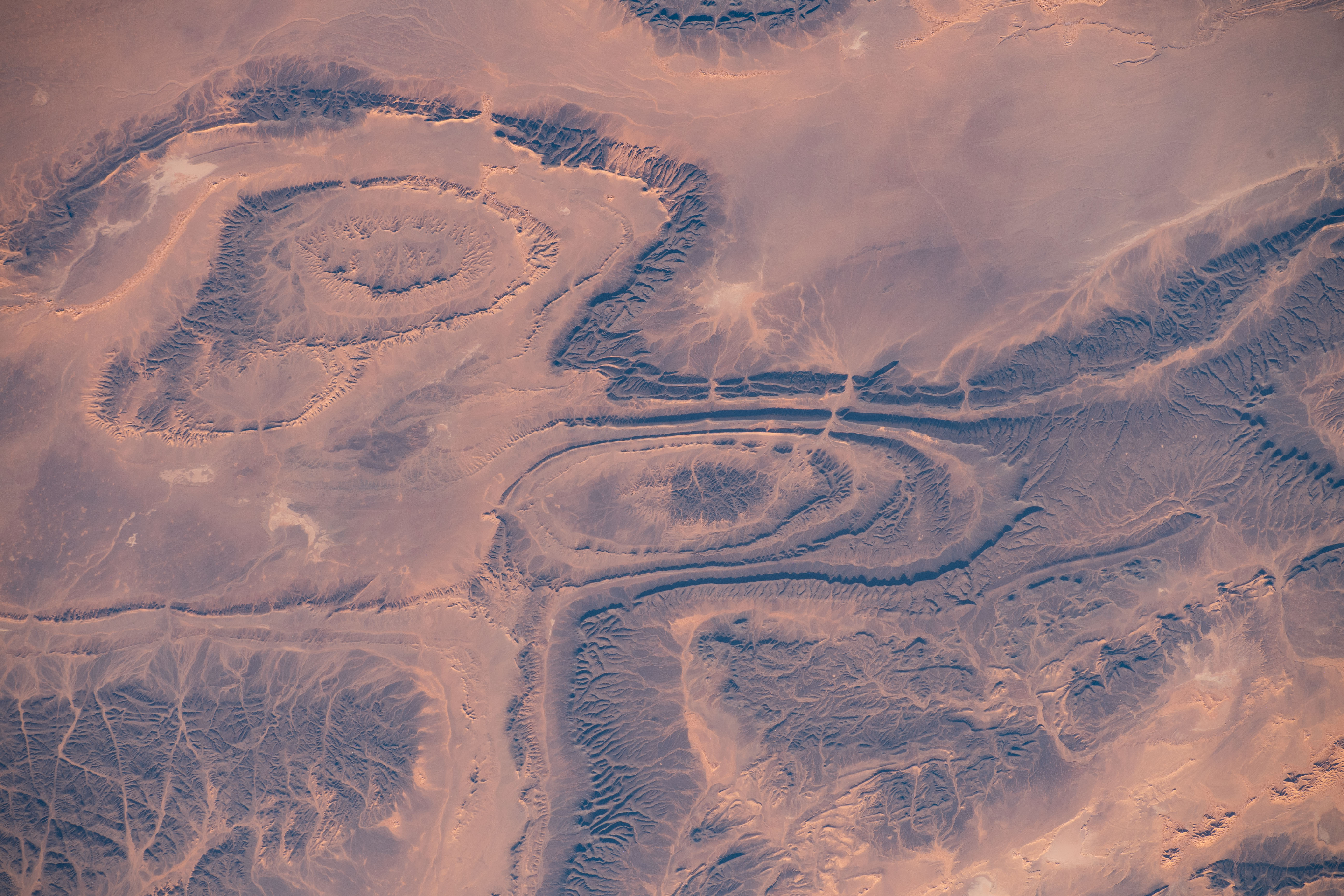 The Ougarta Range of mountains in Algeria is pictured as the International Space Station orbited 258 miles above the African nation.